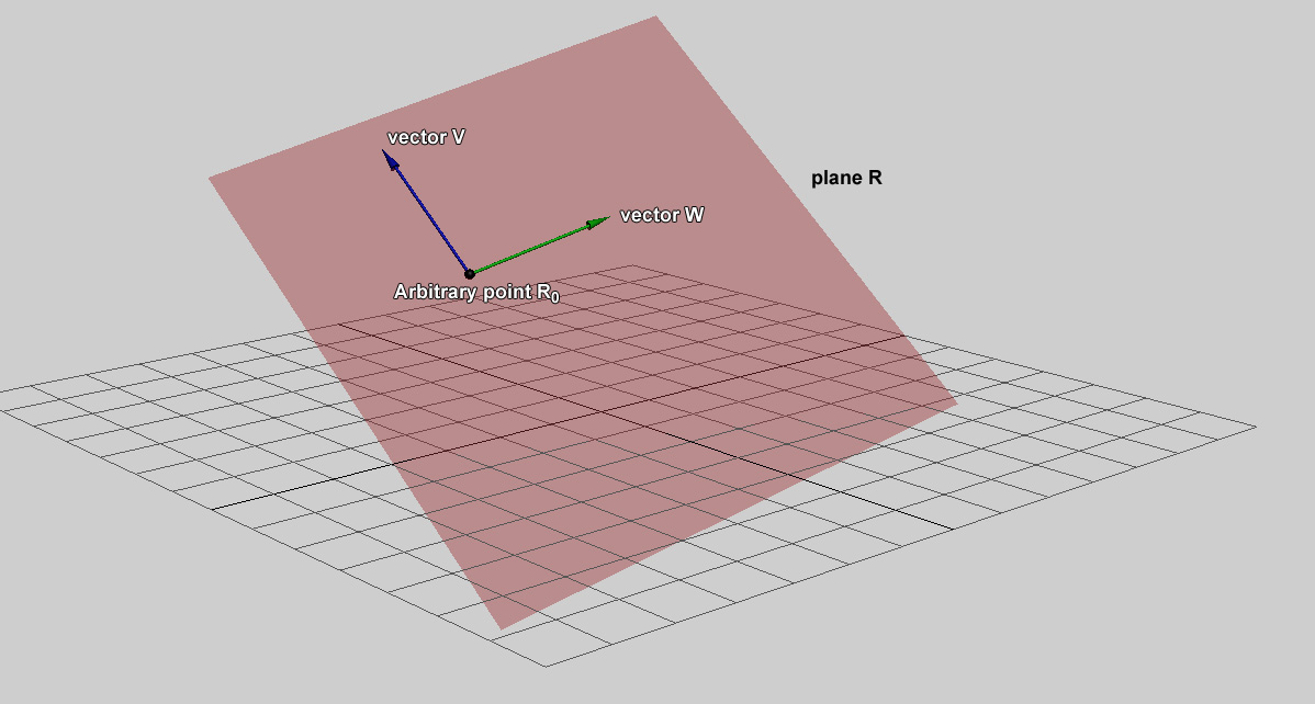 an image that shows the plane R with vectors V and W extending from an arbitrary point R0